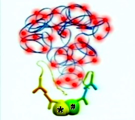 Proximity Ligation Assay: Step 4